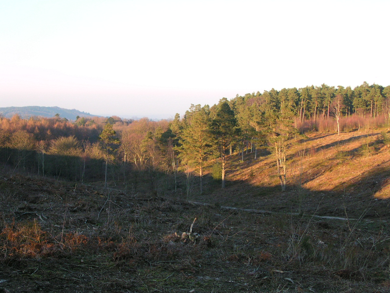 Newly cleared woodland at Blackdown, West Sussex, England.